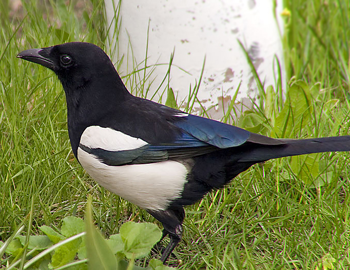 European Magpie, Pica pica, Linnæus (1758)